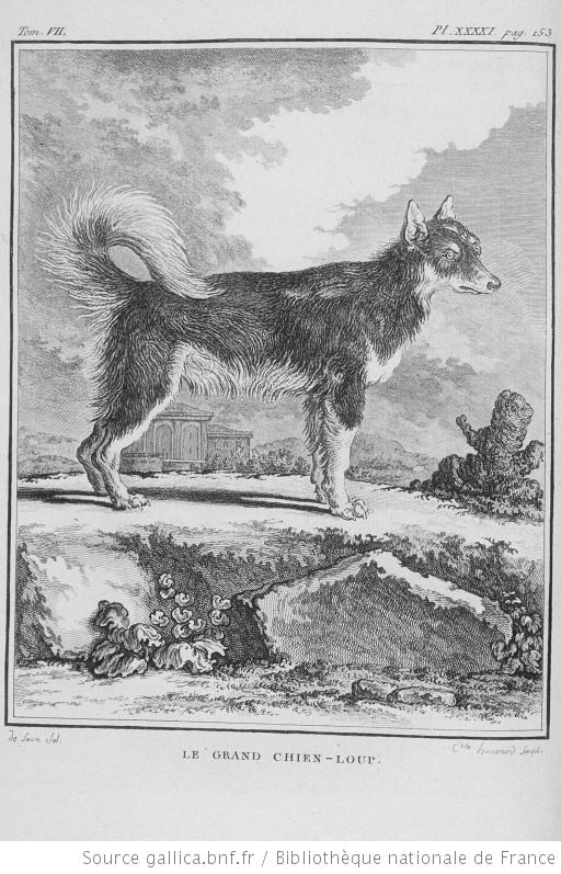 Deutscher Spitz